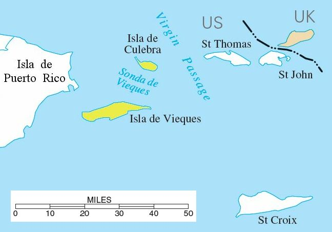 Spanish Virgin Islands with surrounding islands. 18°18′N 65°18′W / 18.3°N 65.3°W.